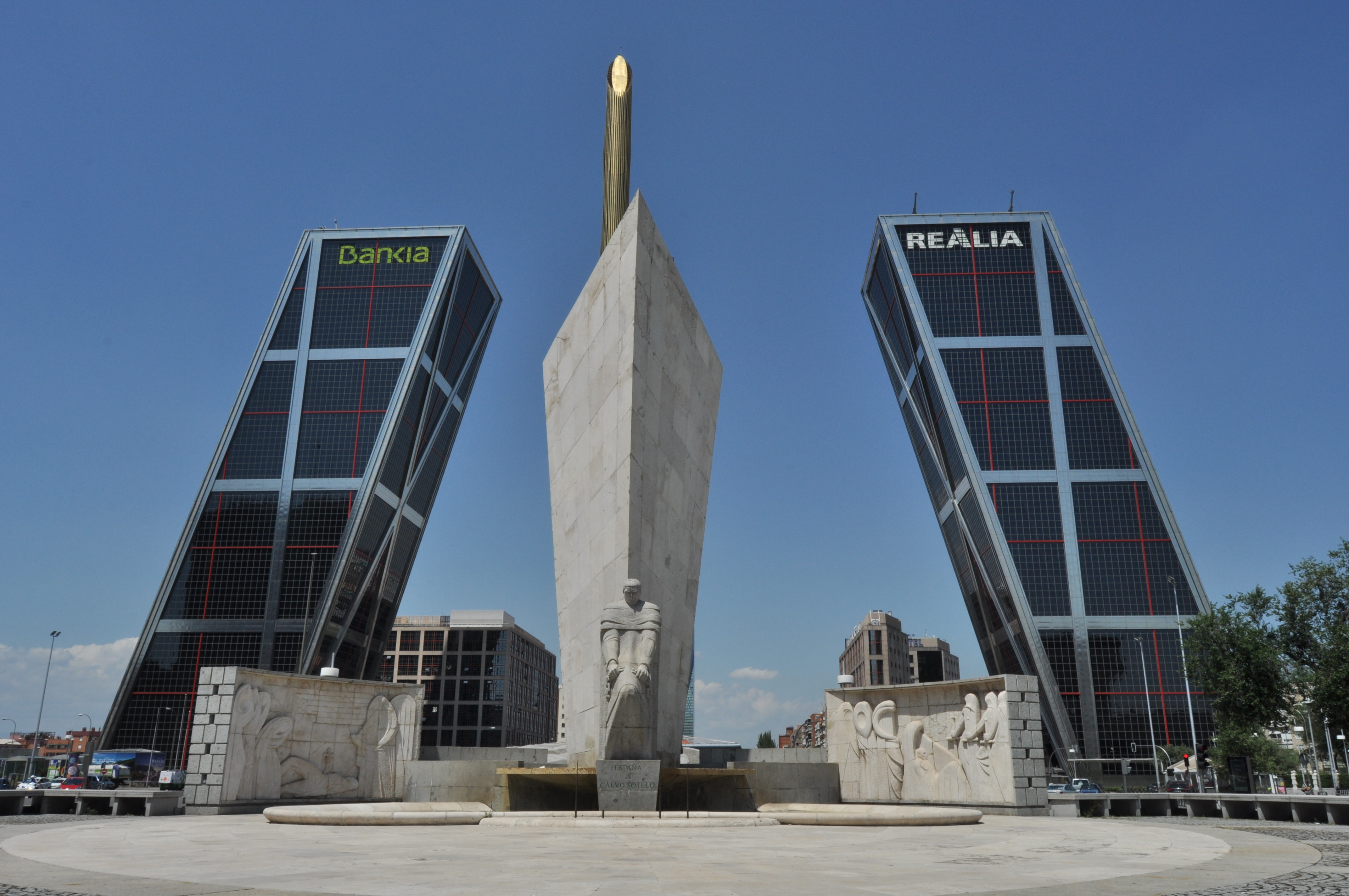 Torres KIO - 001